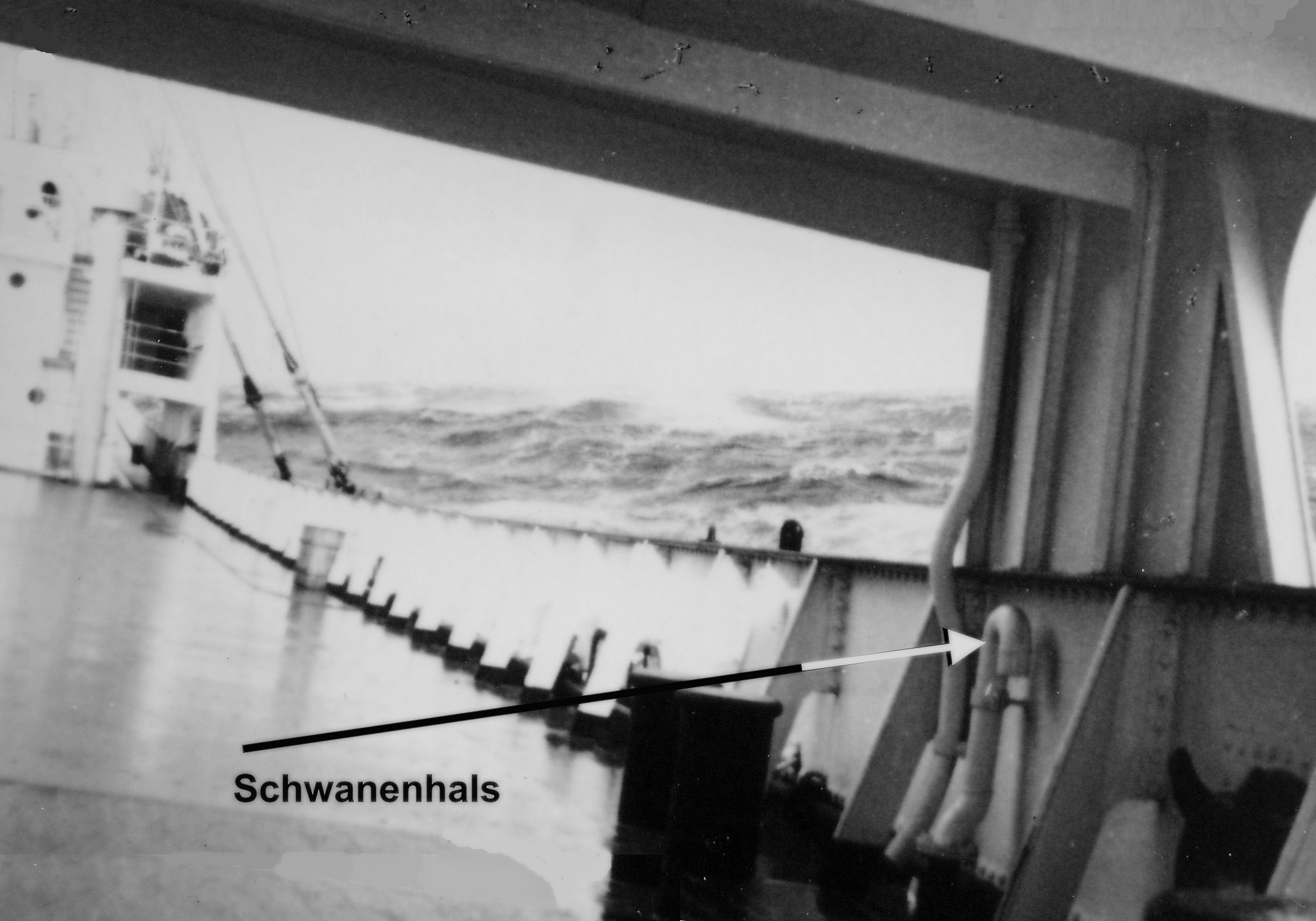 Gooseneck - wind and sea approximately 45 degrees from starboard, force 8 to 9